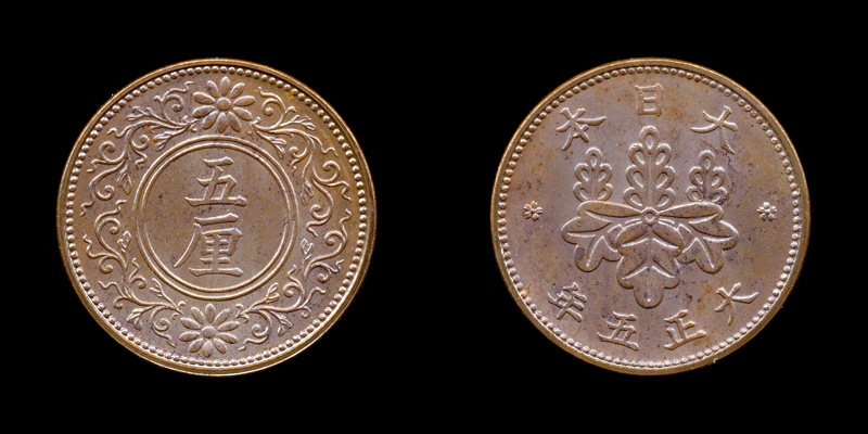 5rin-T5